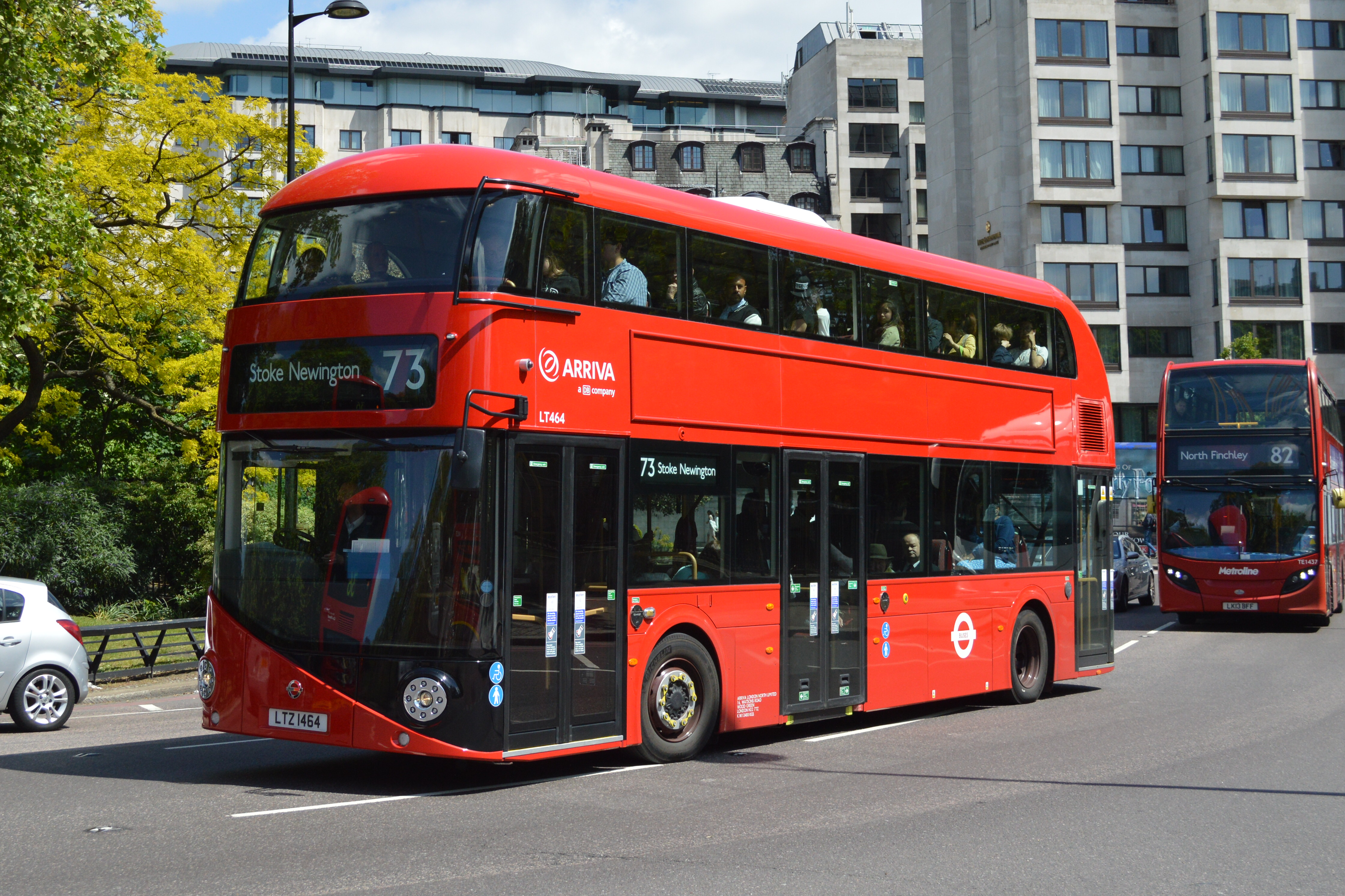 Arriva London New Routemaster LT 464 (LTZ 1464) is seen entering Park Lane on London route 73 to Stoke Newington. This is seen on Saturday 16 May 2015.